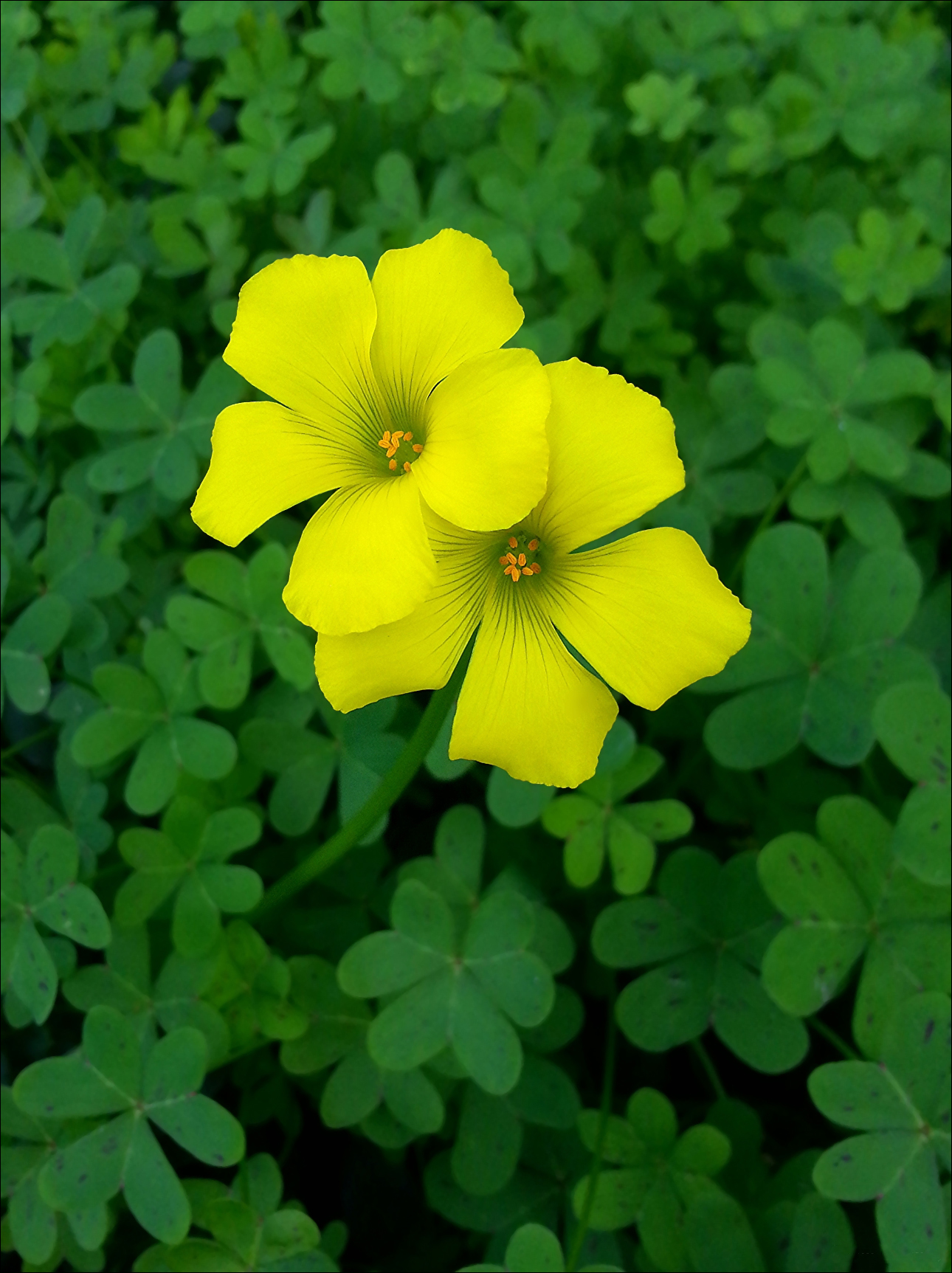 Oxalis pes-caprae, Israel, 2014 Description from Flickr: Oxalis pes-caprae חמציץ נטוי Tel Aviv University, Israel אוניברסיטת תל אביב, ישראל מוקדש לנעמי אופנהיימר